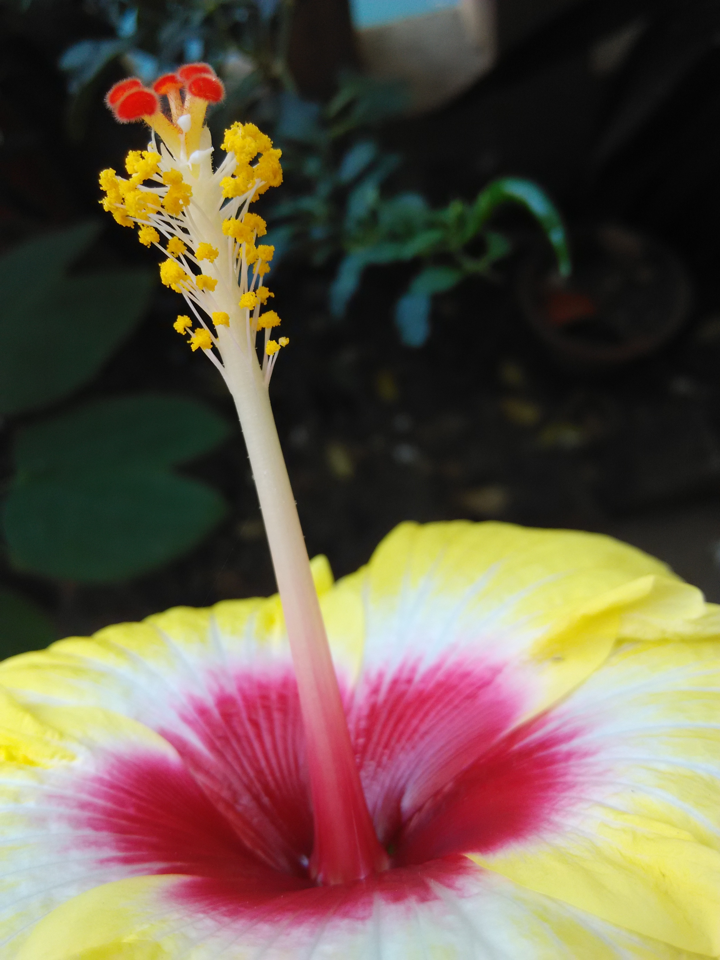 Pollen of Hibiscus through macro photography